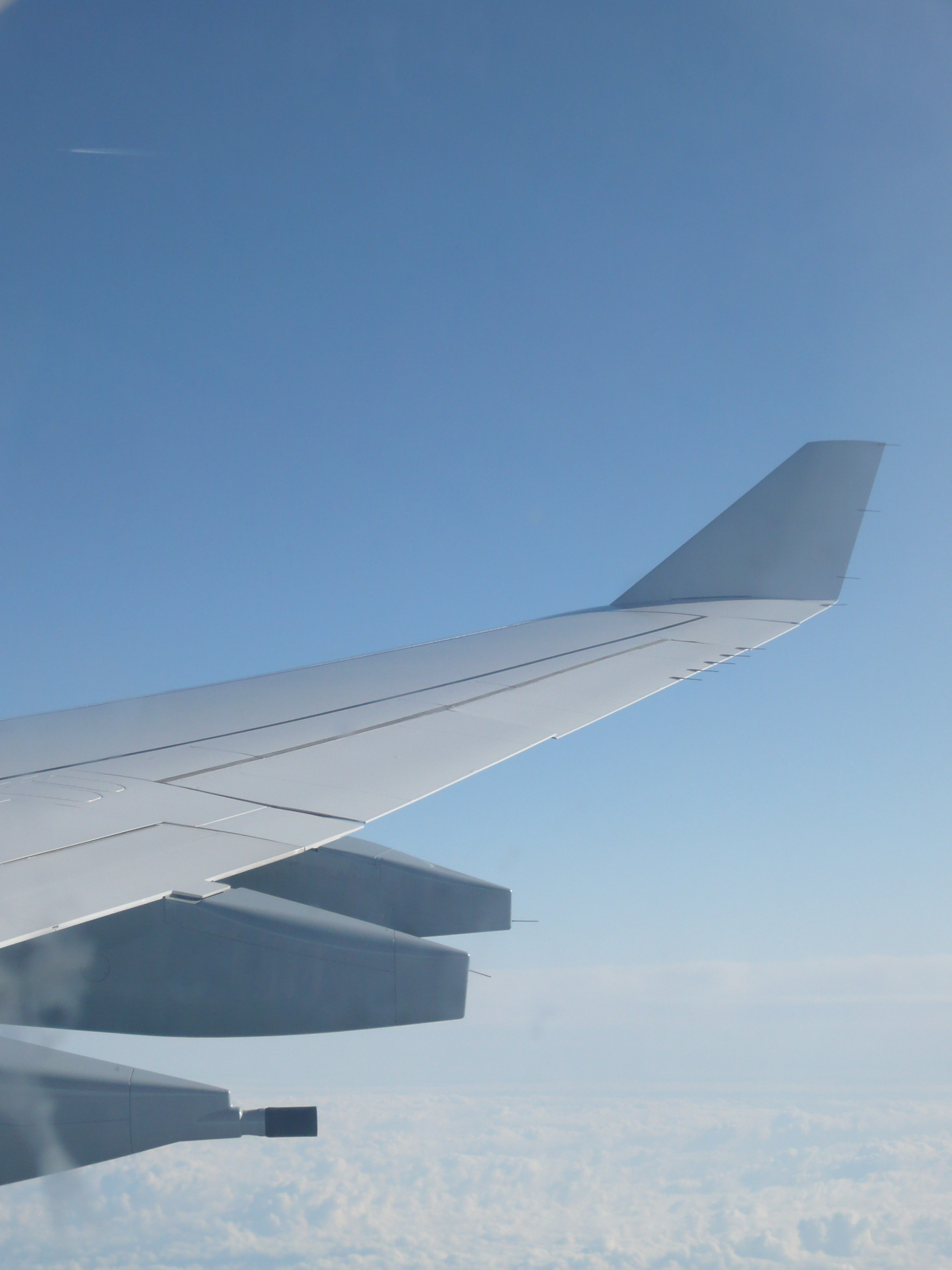 Wing of an Airbus A340-600